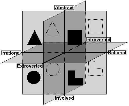 A diagram depicting the relationships between the eight information elements in Socionics using three of the possible dichotomies.